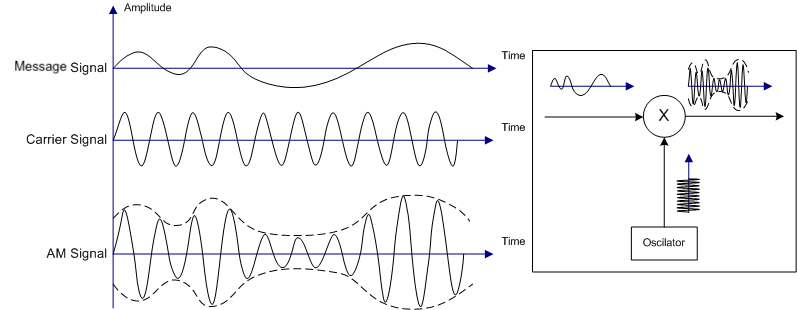 The illustration of amplitude modulation (AM) which depicts comparison between information signal, carrier signal, and AM signal.